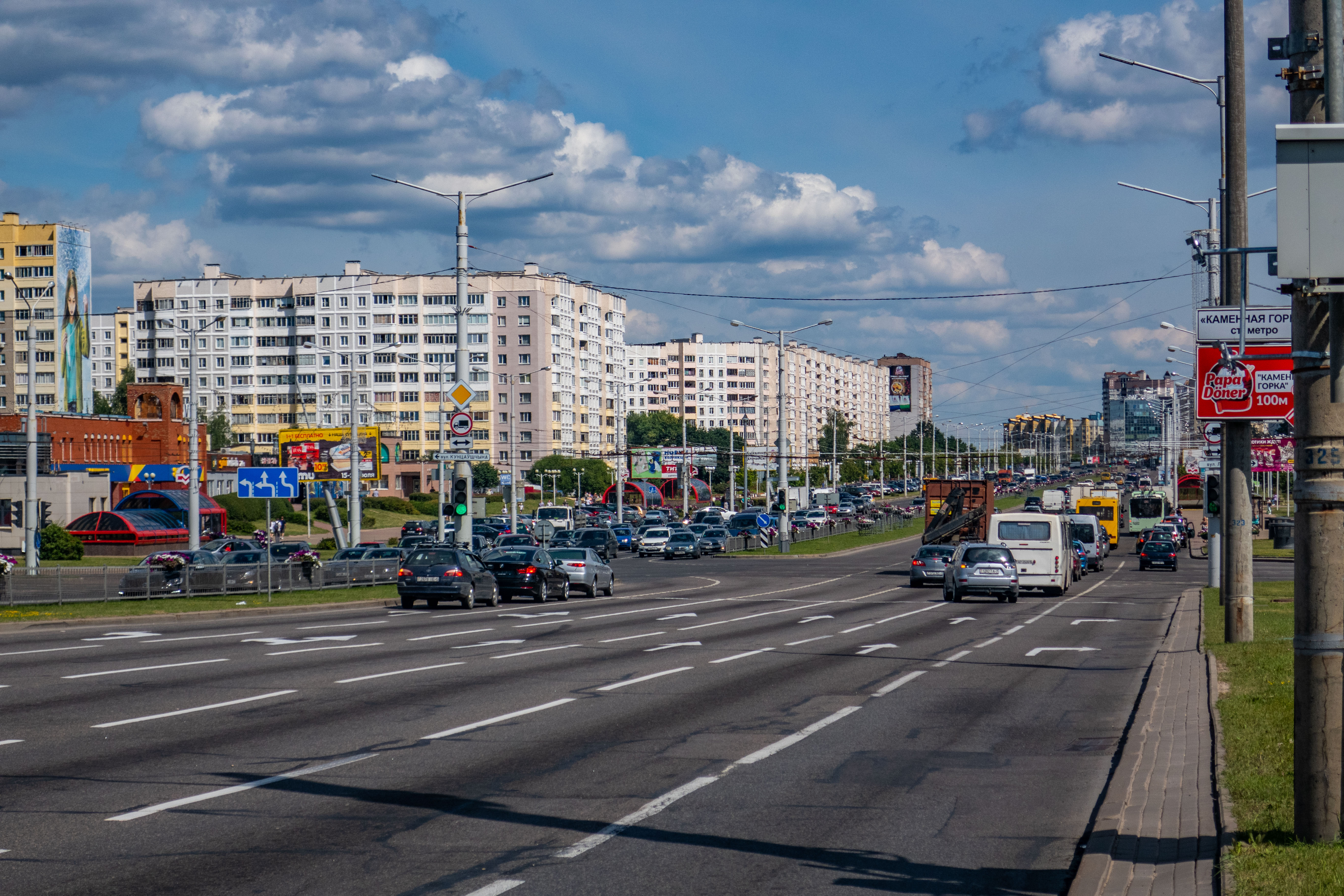 Prytyckaha street. Minsk, Belarus